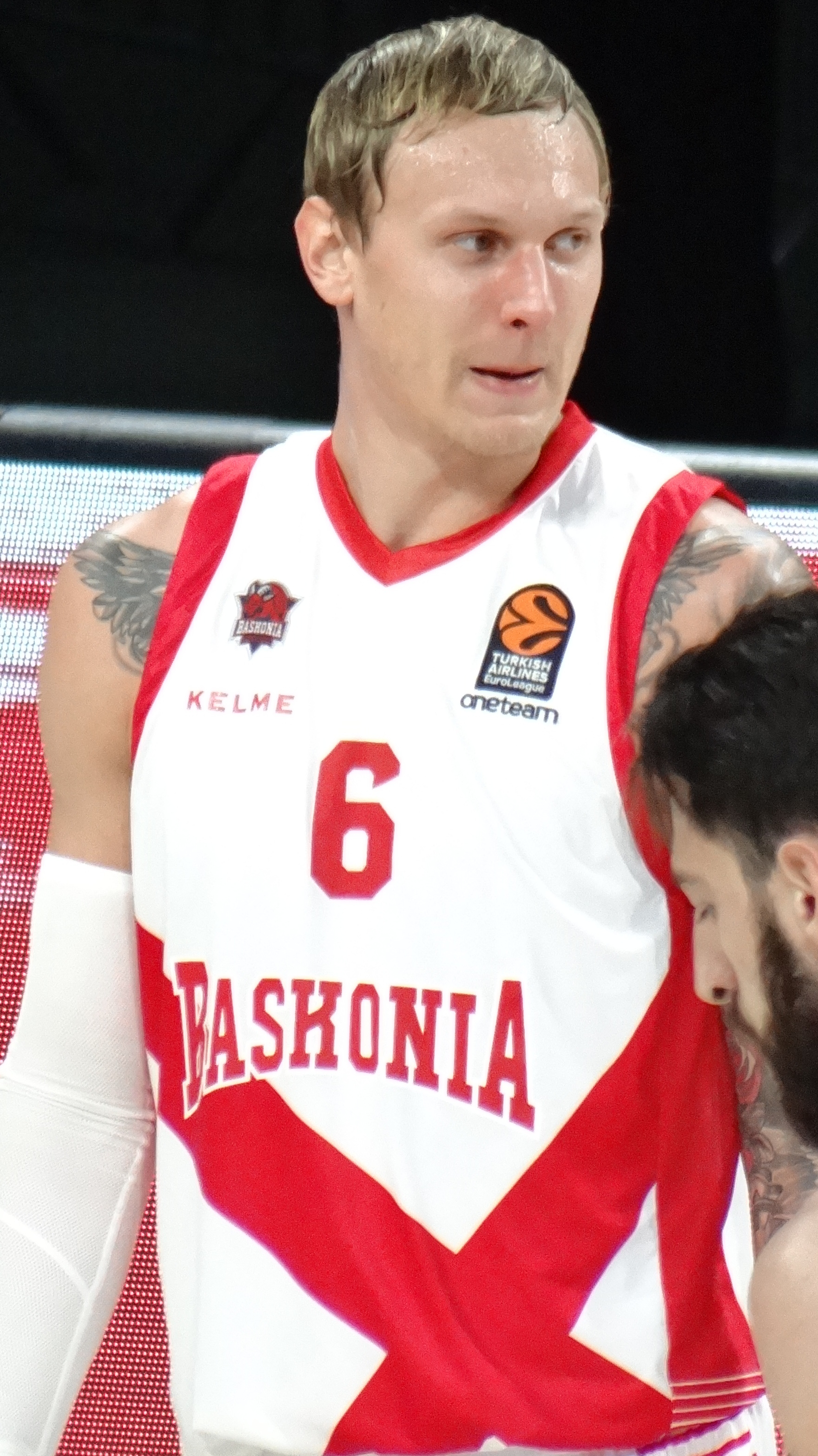 Jānis Timma 6 - Saski Baskonia 20171215